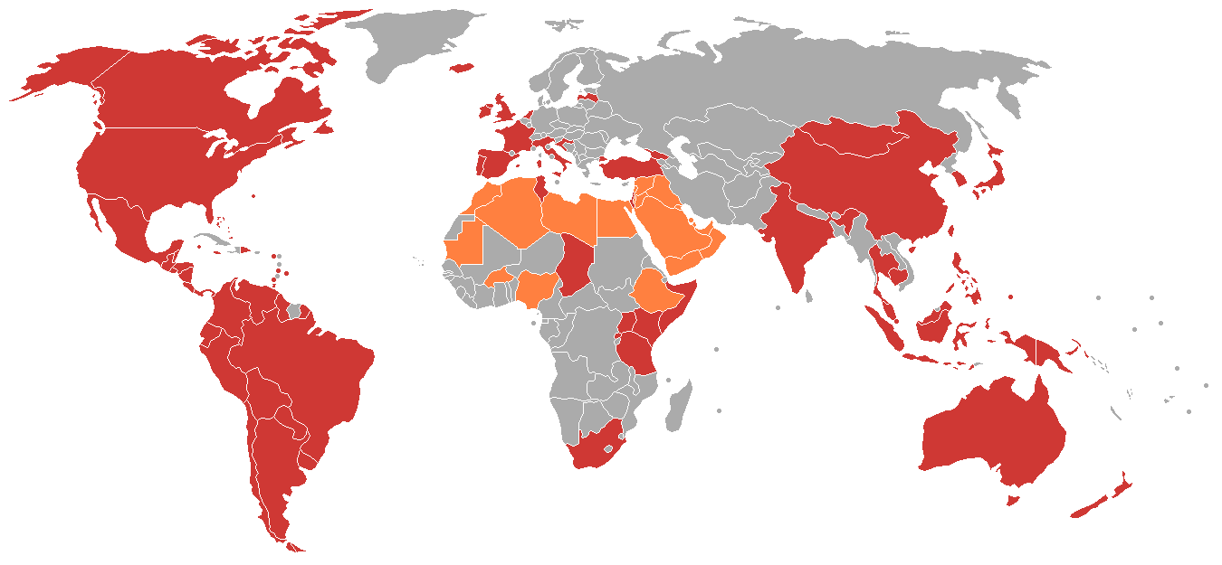 Where Fox News is available, as listed on Fox site, "Where in the World is FOX". Based on blank world map Red = countries listed Orange = Fox news is available on Satellite TV (note: the wikipedia article also lists Nigeria, Thailand, and France)